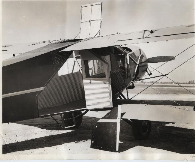 Chalres Babb Special Collection Repository: San Diego Air and Space Museum Archive